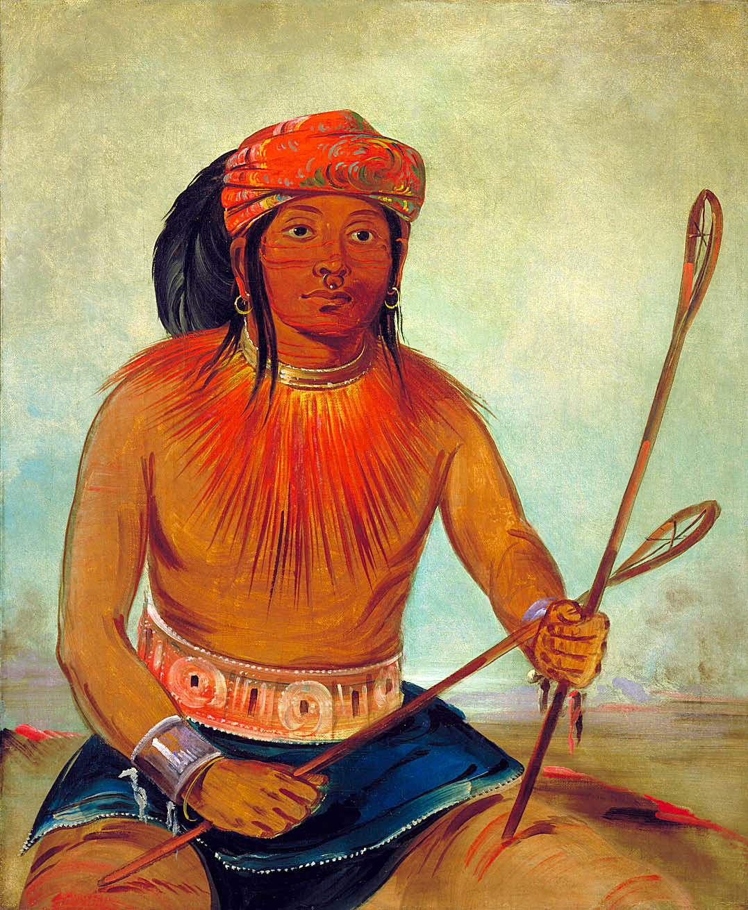 Tul-lock-chísh-ko, Drinks the Juice of the Stone, a Choctaw ballgame player